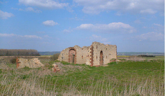 Site of Thornholme Priory This old ruined barn, of no great antiquity, marks the site of Thornholme Priory. The Priory was a house of Augustinian Canons founded mid C12. Visible nearby are the remains of the Priory fishponds.